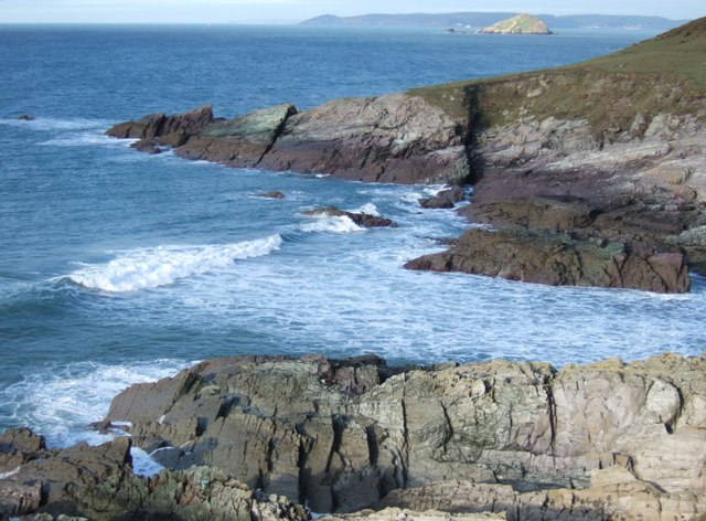 Saddle Cove and Blackstone Point The dip of the rocks determines the shape of the headland. Beyond is the Great Mew Stone with Rame Head in the distance.